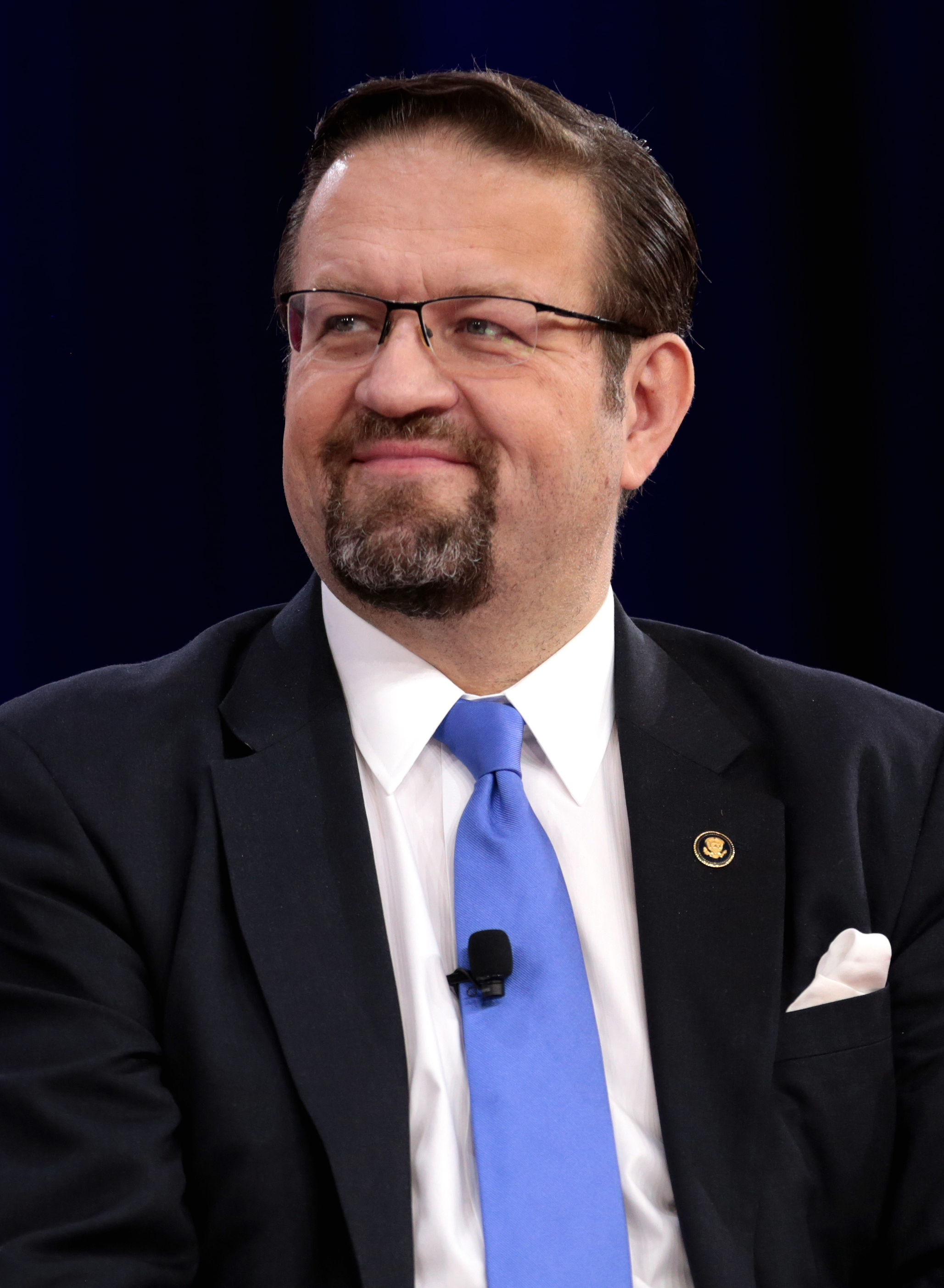 Sebastian Gorka speaking at the 2018 CPAC in National Harbor, Maryland.